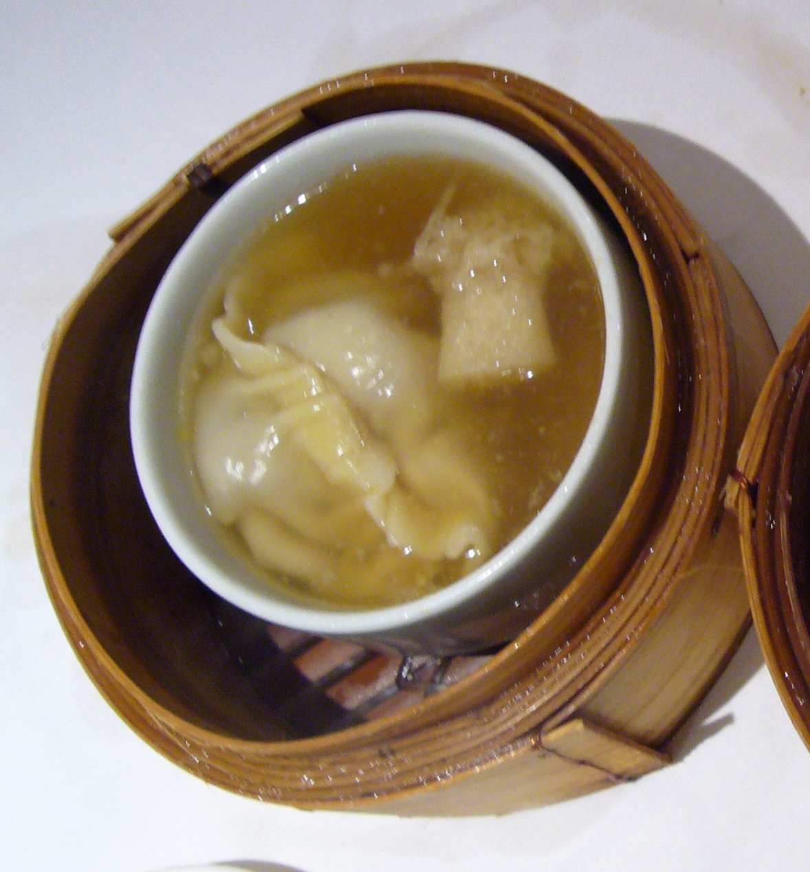 灌湯餃, a kind of dumpling served in broth.